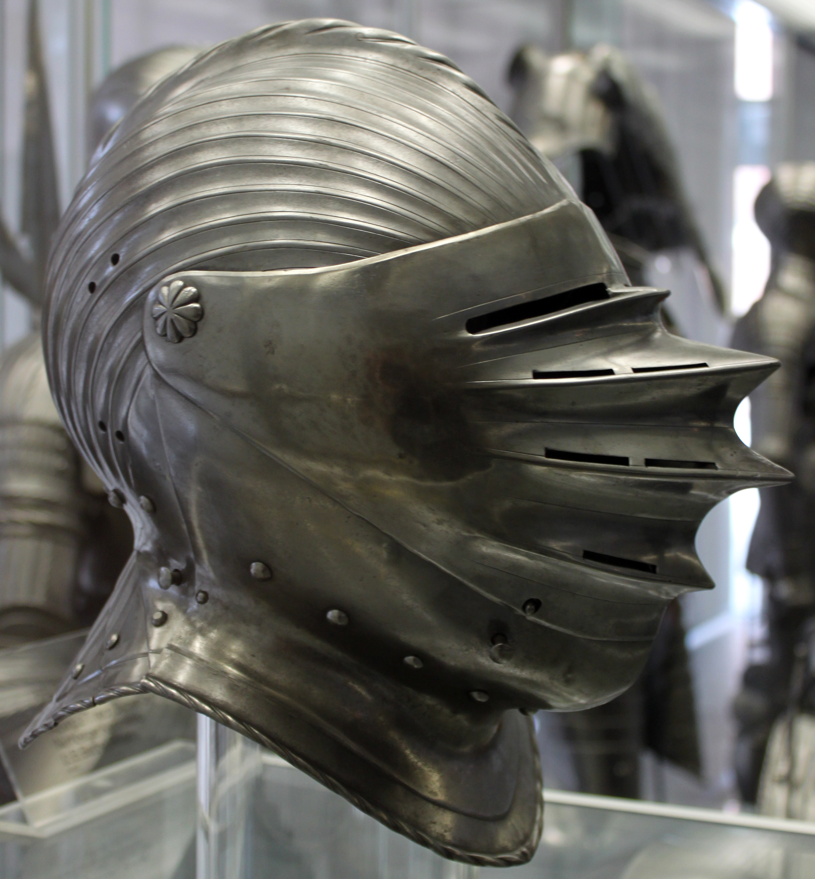 German visor helmet with bellows visor, Landshut (Beschau), 1 Half of the 16th Century; Germanic National Museum in Nuremberg